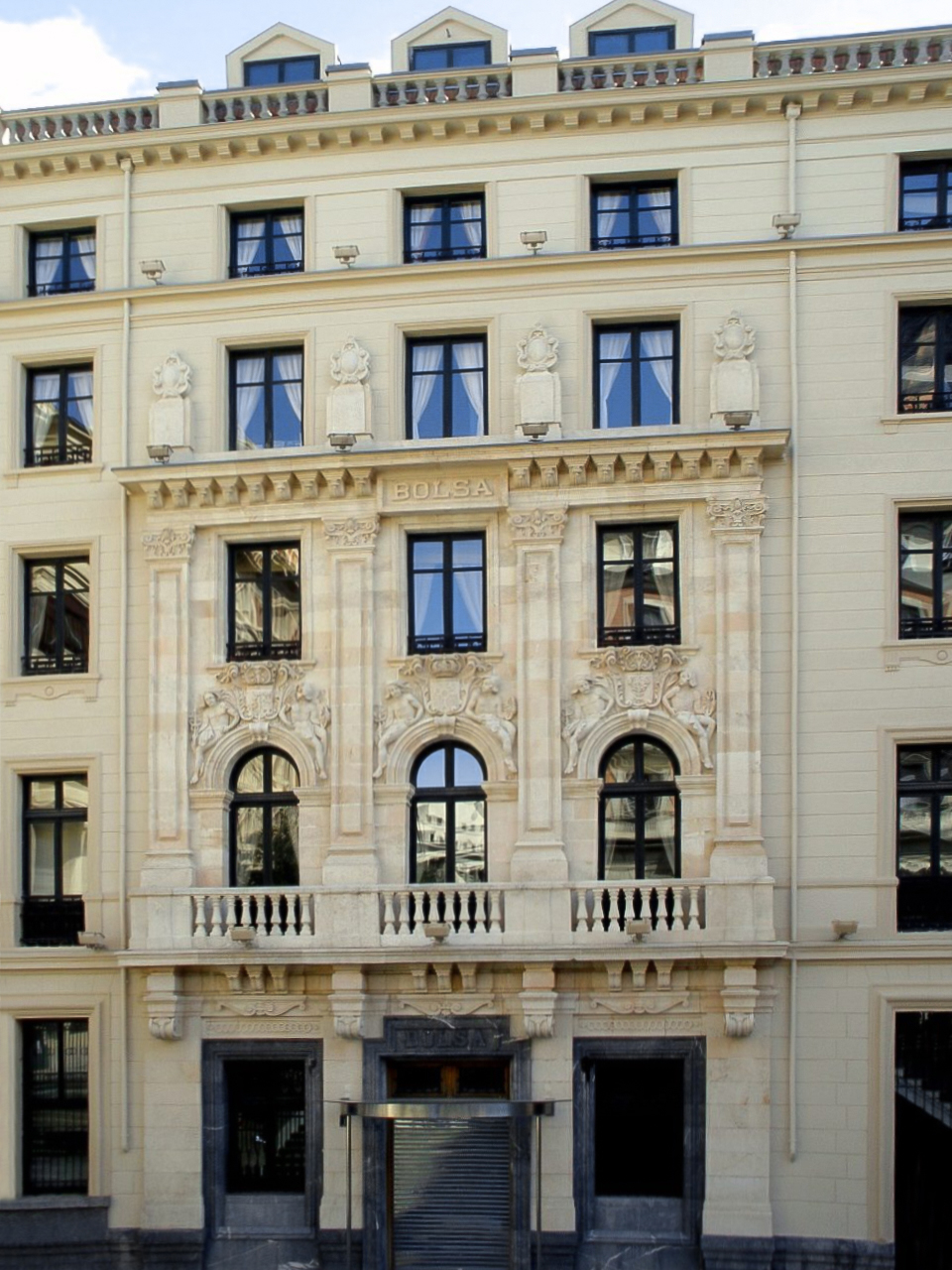 Edificio de la Bolsa de Bilbao (País Vasco, España)